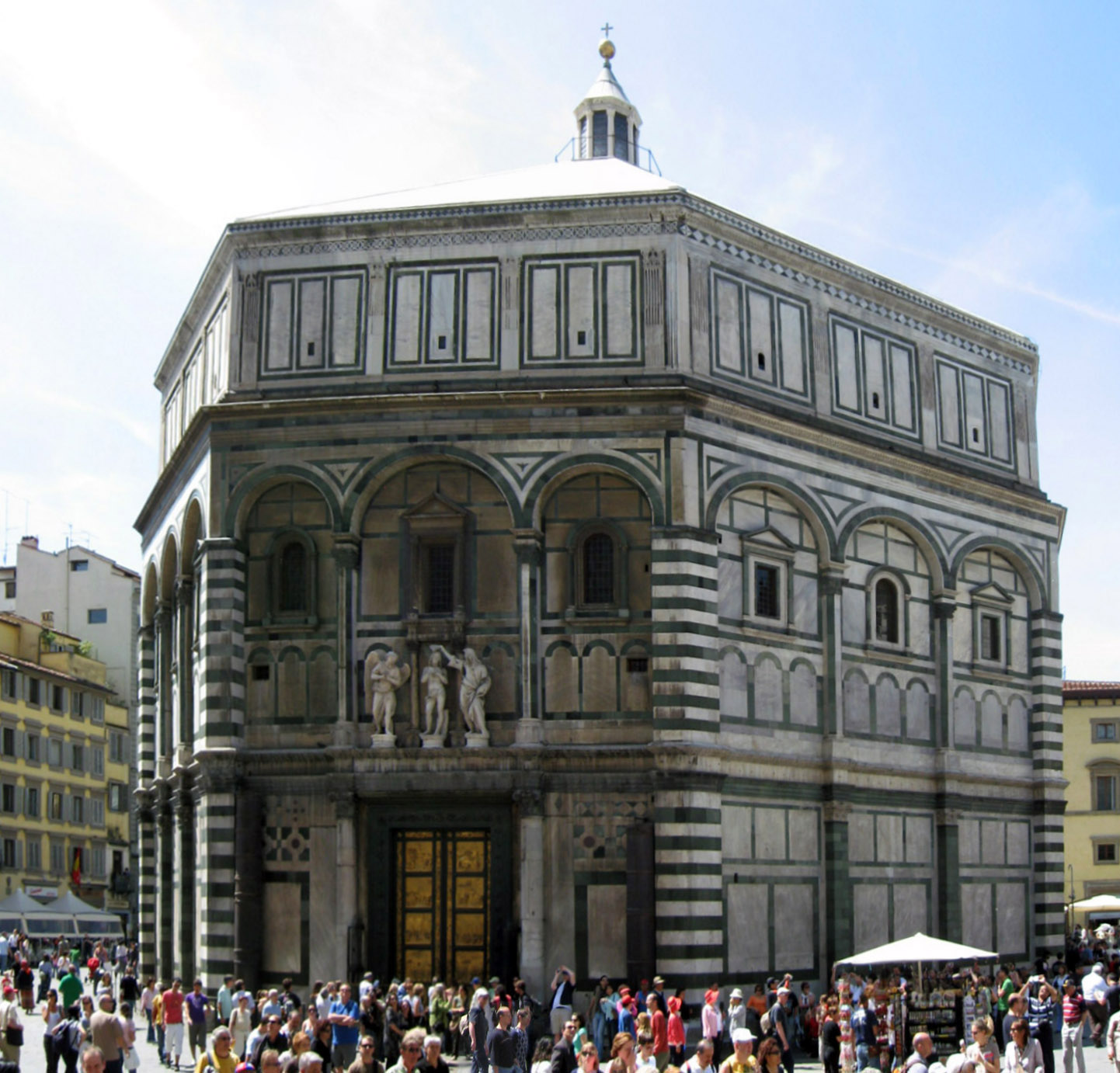 The Baptistry of St. John in Florence.